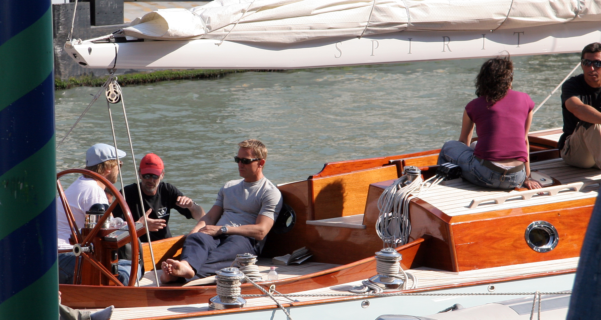 Daniel Craig on a yacht in Venice during a break in filming Casino Royale.